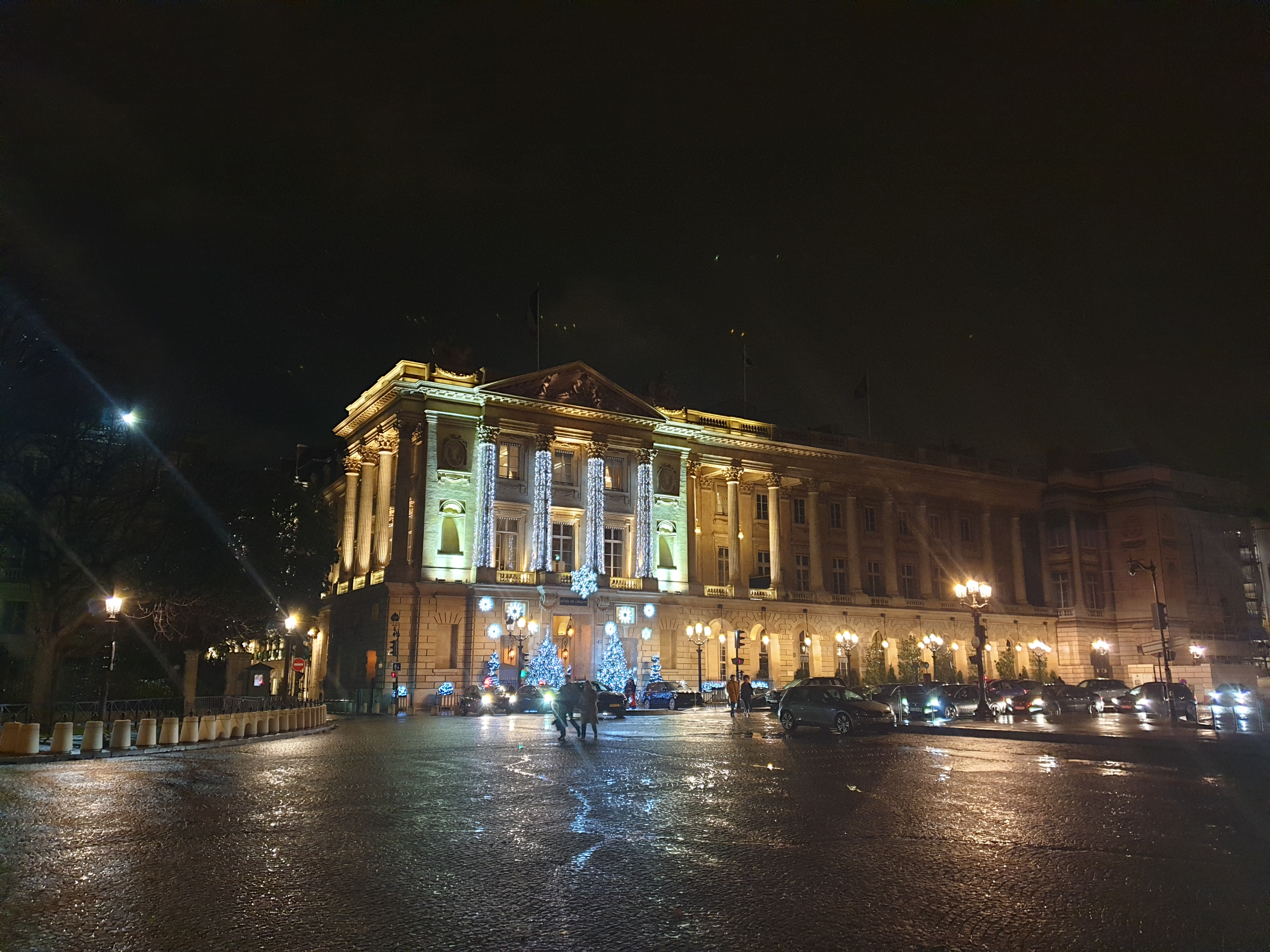 Hôtel de Crillon in Paris by night.